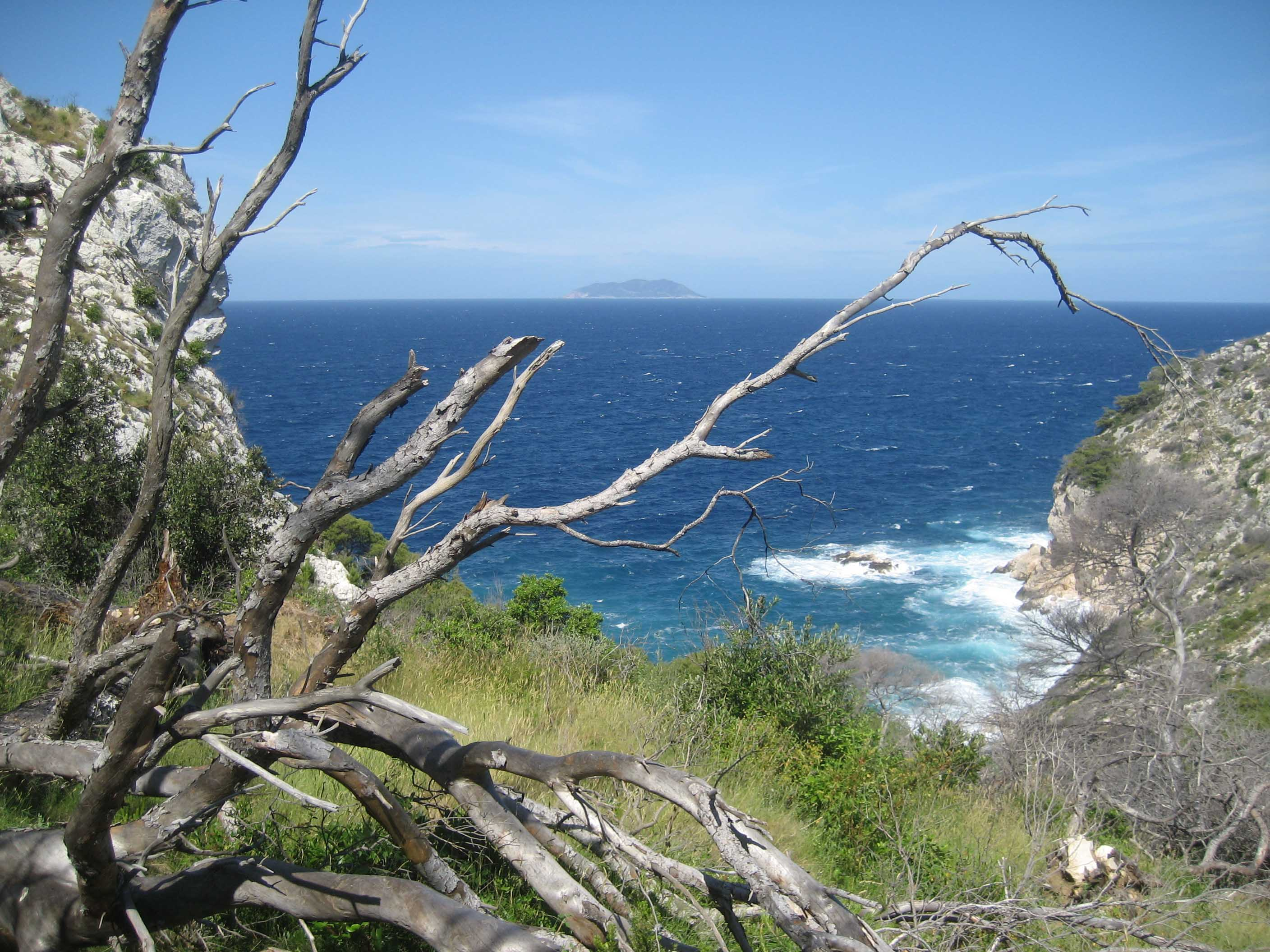 Biševo, island in Croatia (west coast), view of island Sv. Andrija (Svetac)